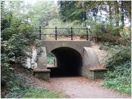 The old tunnel in Het Engelse Werk